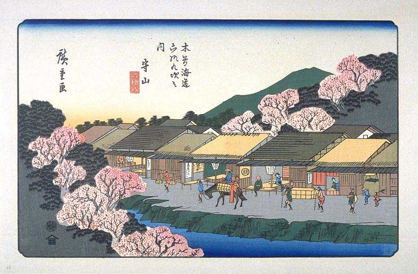 Moriyama on the Kisokaido, ukiyo-e prints by Hiroshige